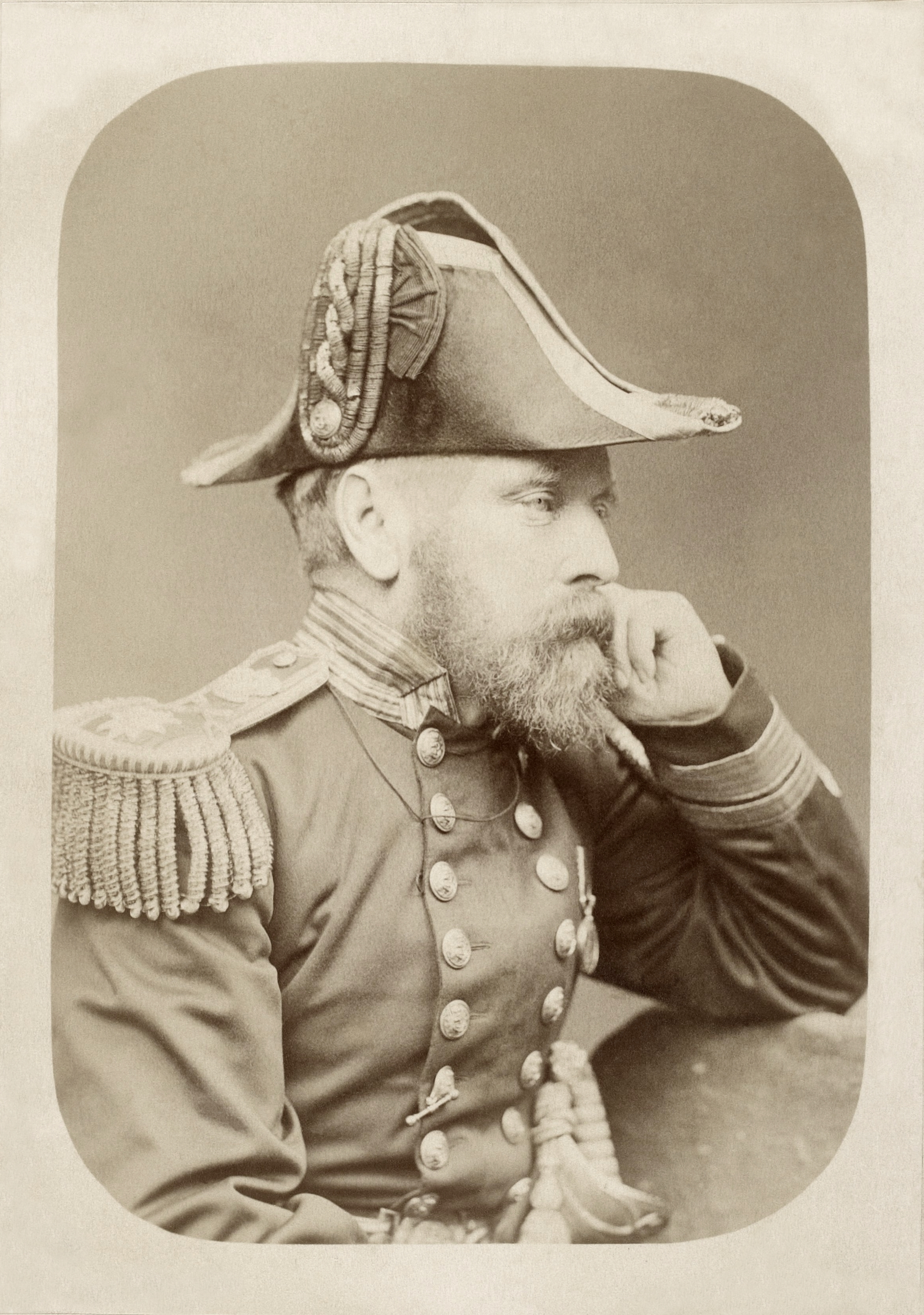 Captain John Moresby (15 March 1830 – 12 July 1922), British Naval Officer who explored the coast of New Guinea and discovered the site of Port Moresby.